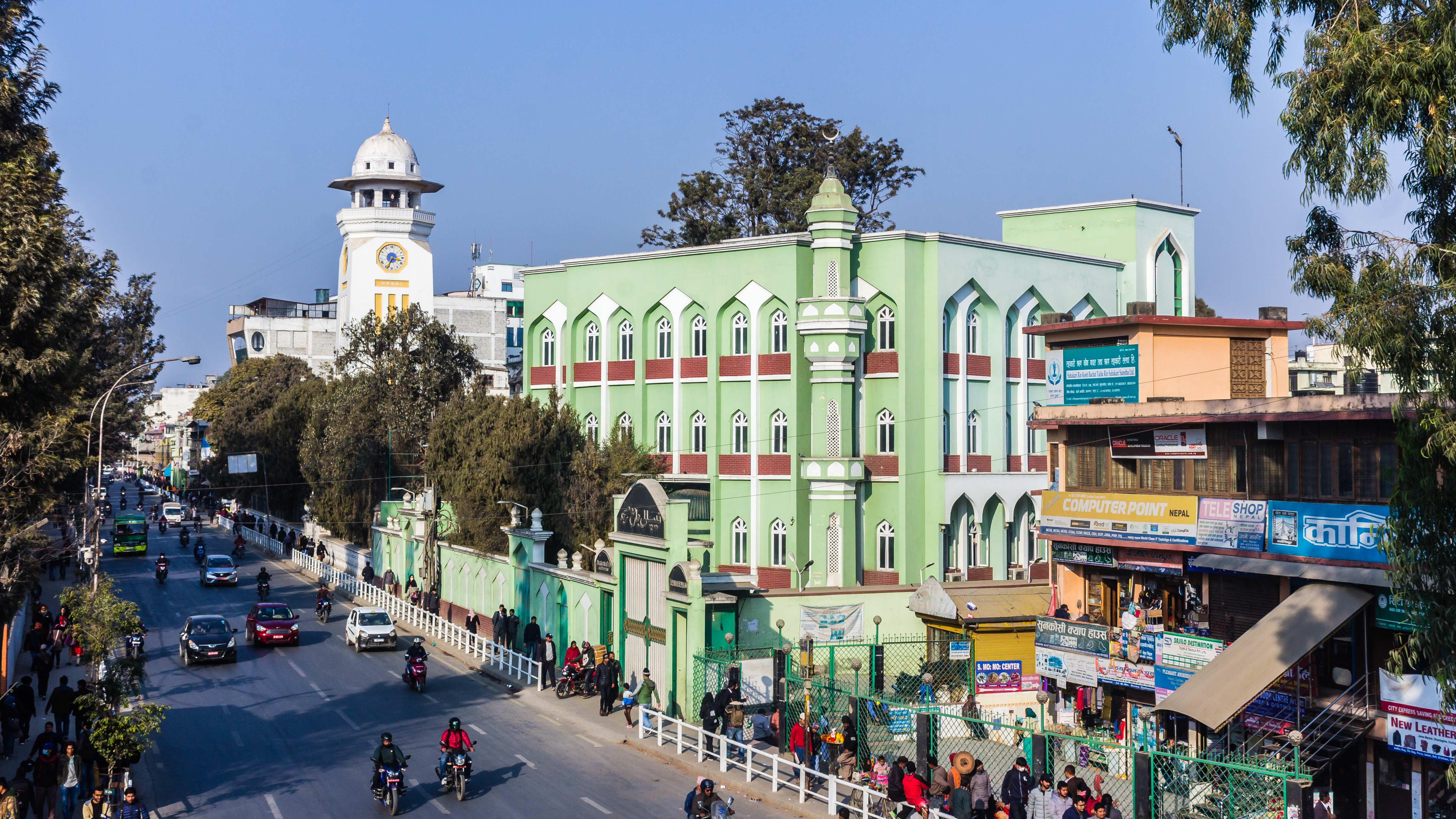 Ghanta Ghar and Nepali Jame Masjid.